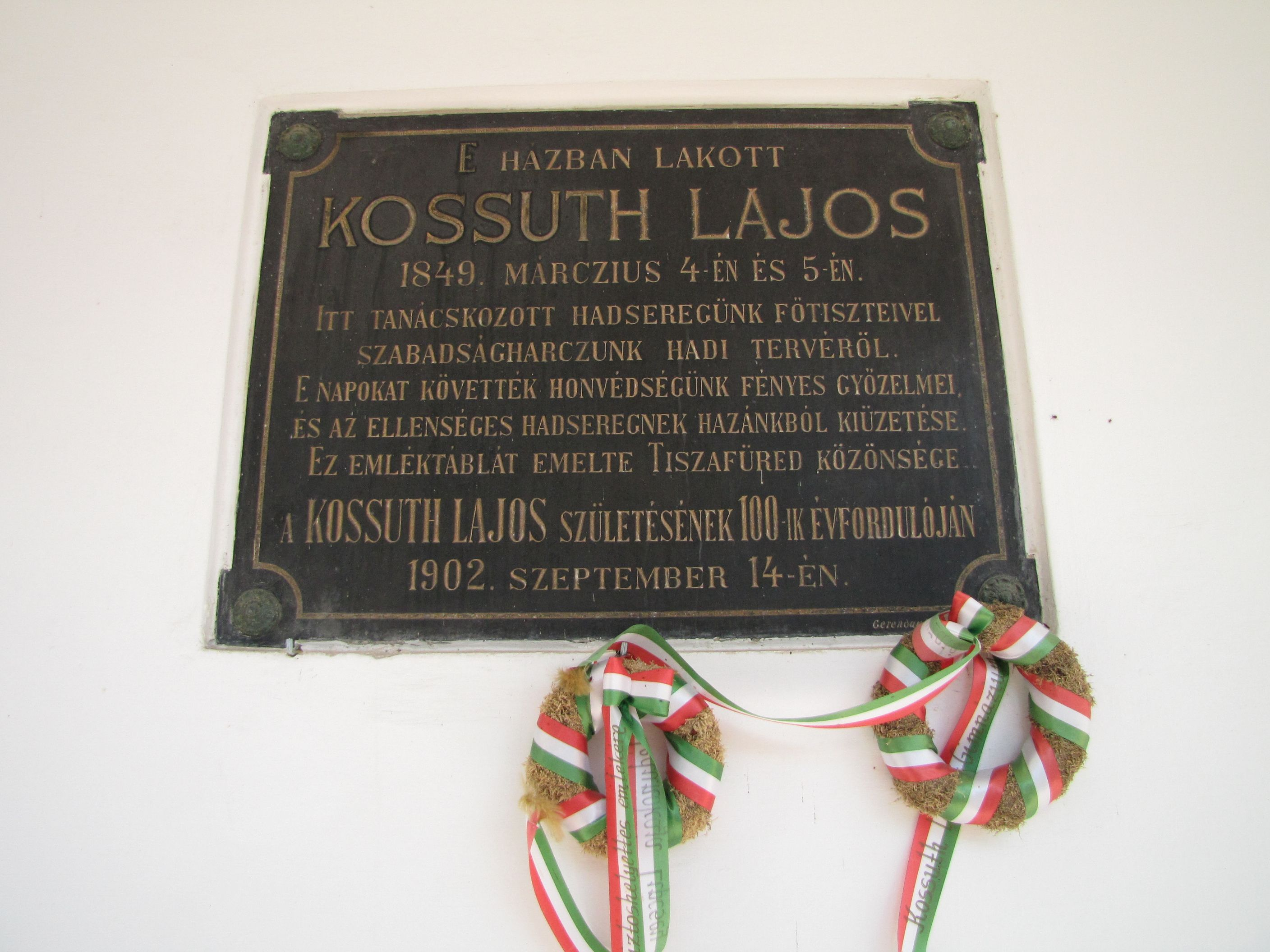 Memorial plaque of Lajos Kossuth on the former Lipcsey Mansion, Tiszafüred, Hungary